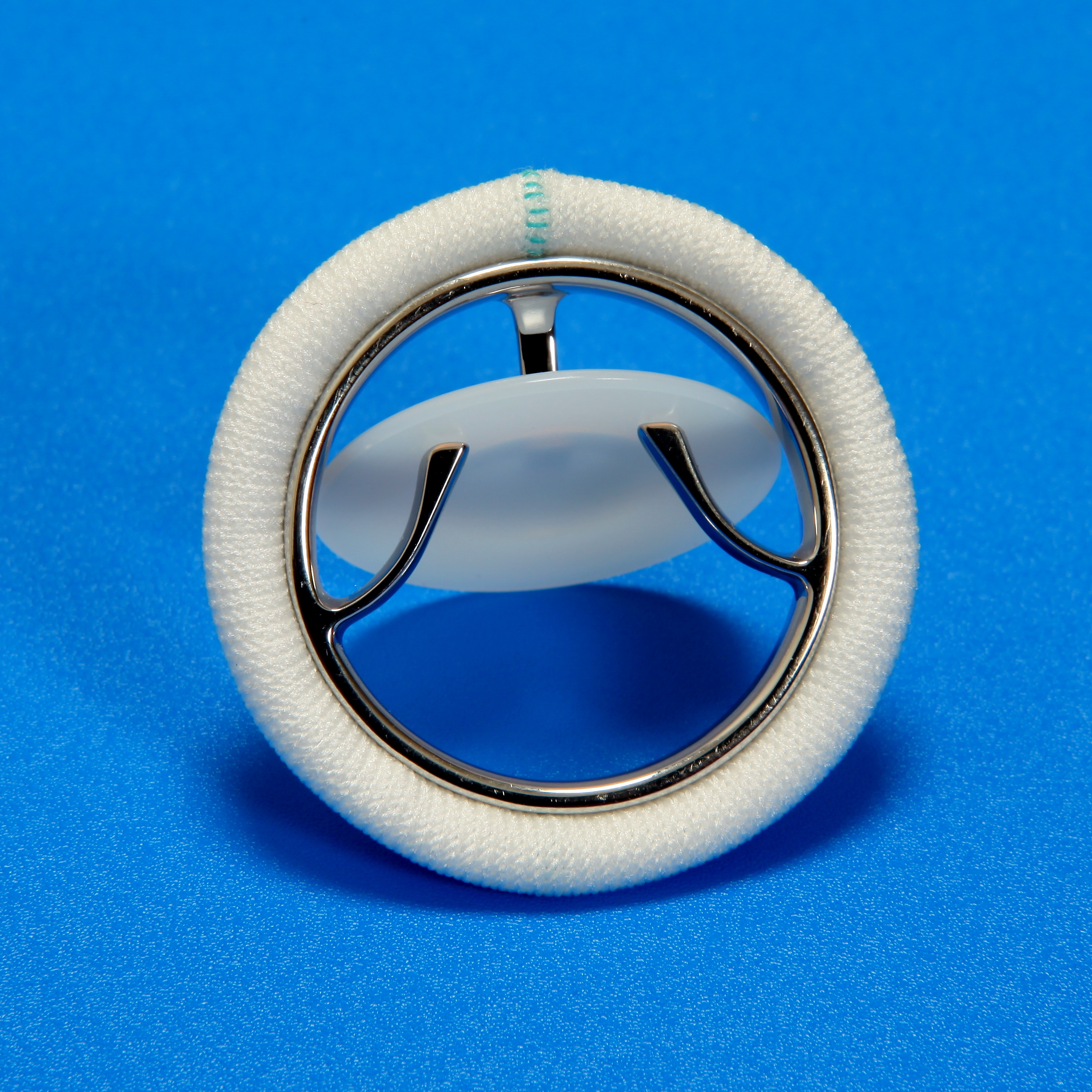 Image of the Chitra valve